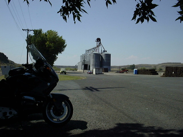 The major feature in Irby is this grain elevator . Photo taken in 1998